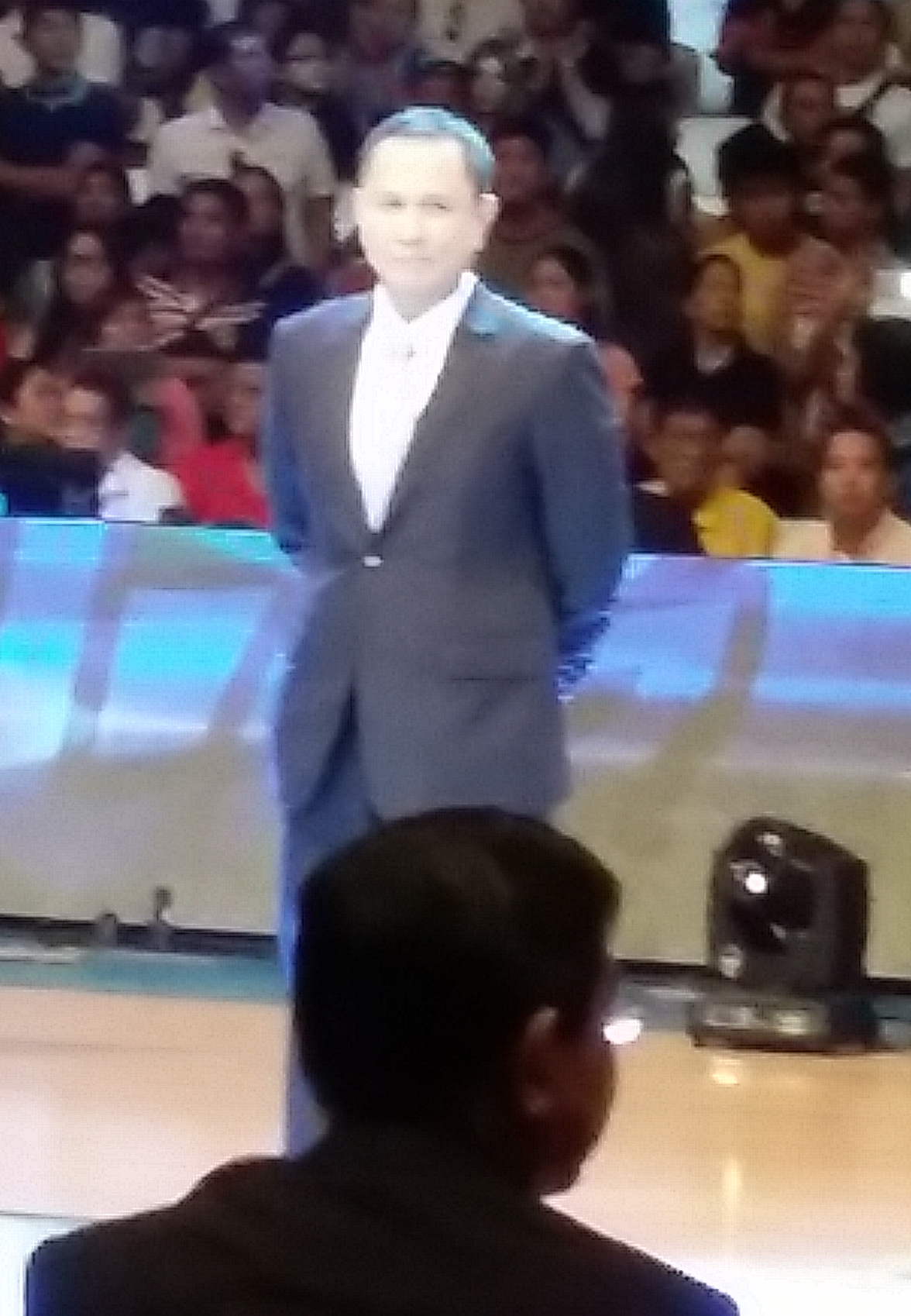 Philippine Basketball Association commissioner Chito Salud during the league's 40th season opening ceremonies last October 19, 2014.